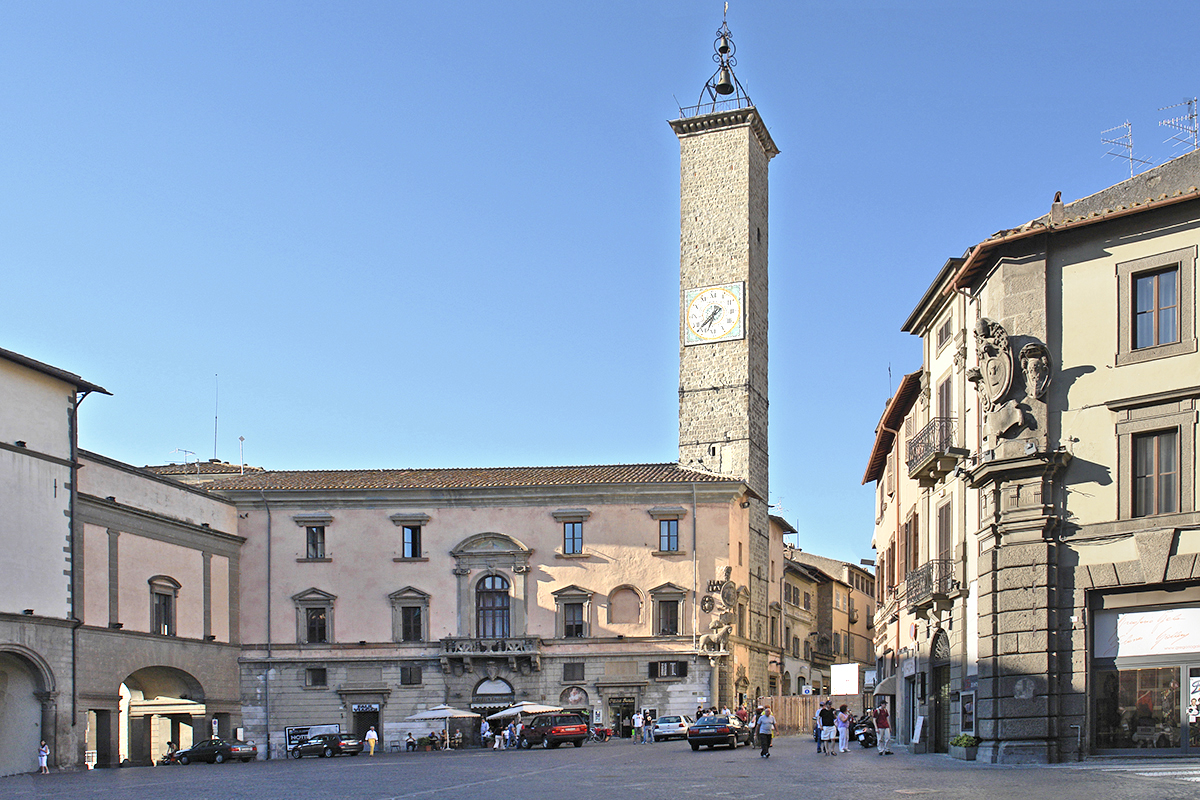 City council of Viterbo / Piazza del Plebiscito